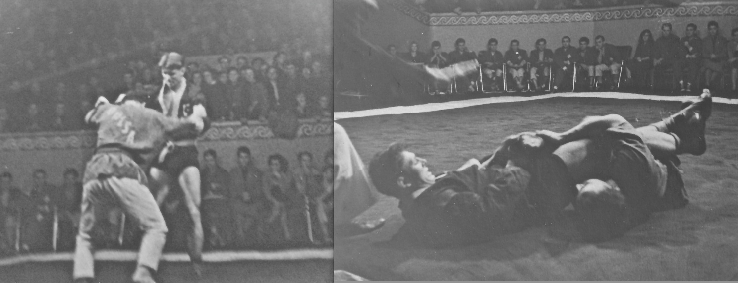 Karashchuk vs Hungarian judoka. 1957, Moscow, Sport Palace "Wings of the Soviets."